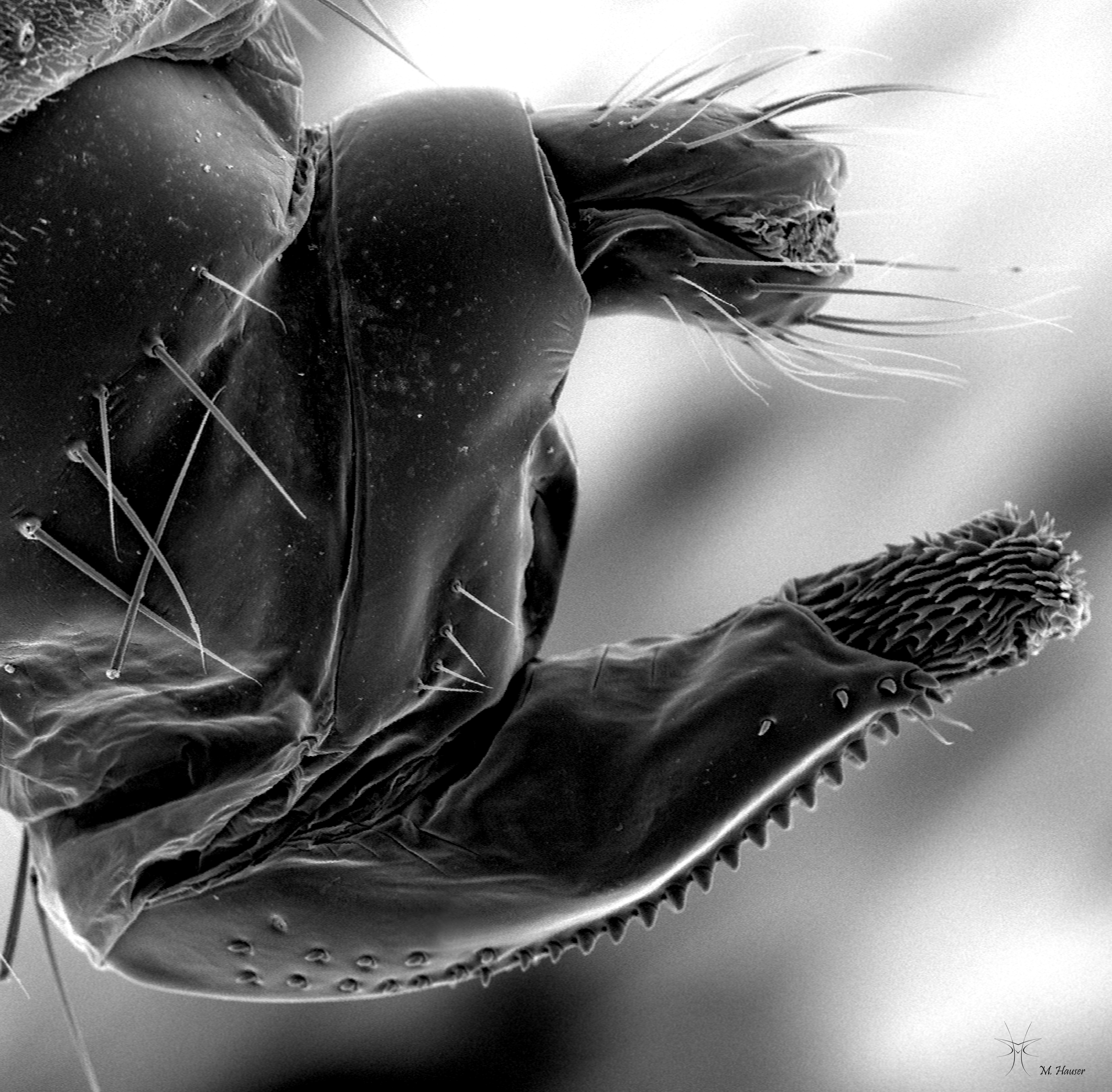 Drosophila suzukii - side viev of the body parts used for laying eggs - elektronenmikroskopische Aufnahme - Martin Hauser, California